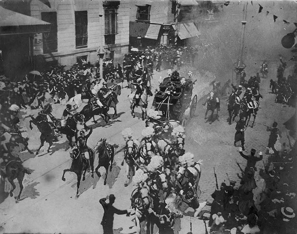 Graphic document, seconds after the anarchist bombing (1906) of King Alfonso XIII on his wedding day, 28 people died and over 100 were injured, but the royals were unharmed.